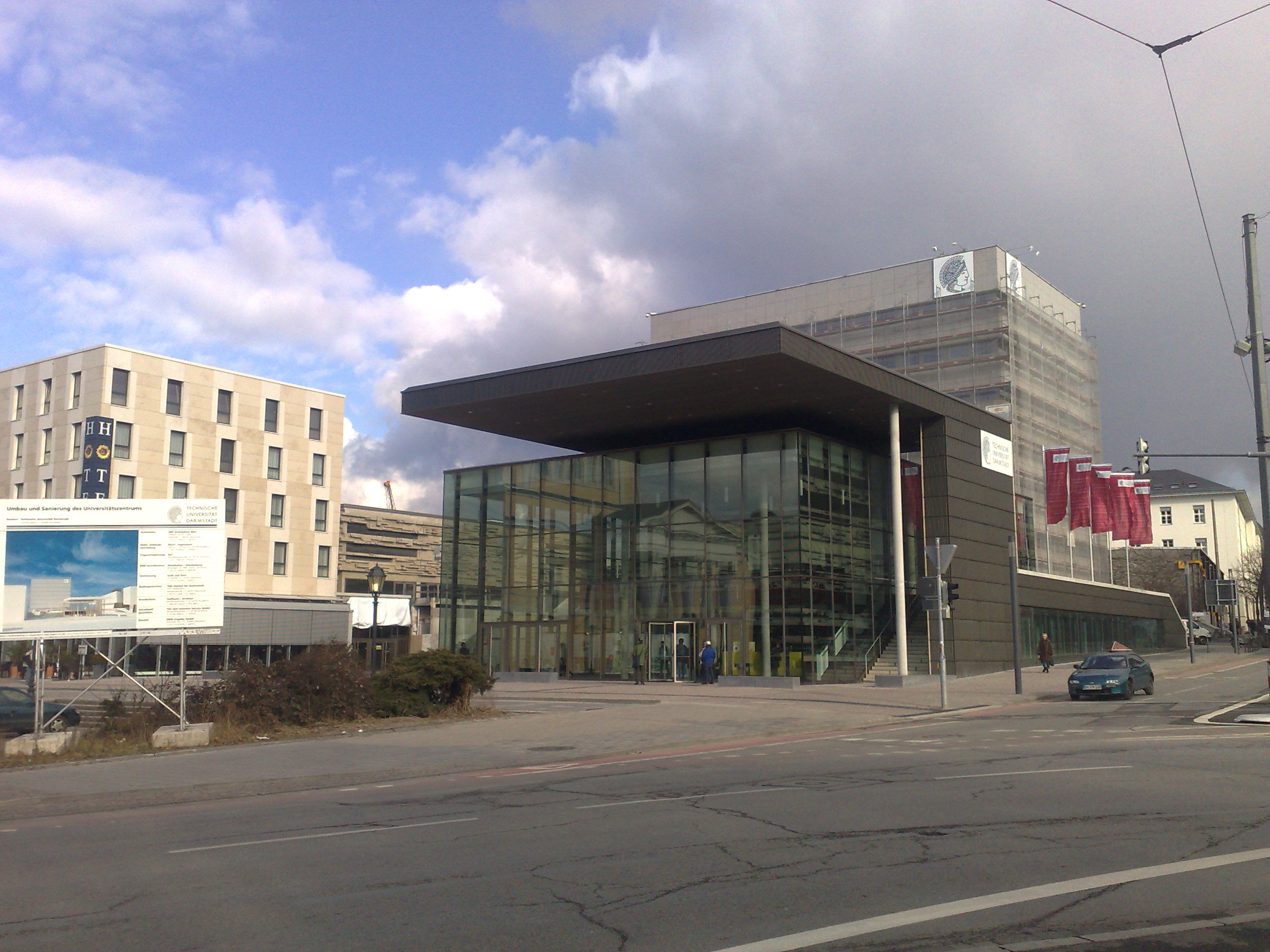 This photograph shows the new entry building ("karo5"), the main administration building and Audimax of TU Darmstadt.